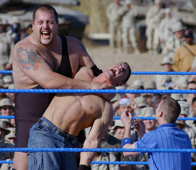 World Wrestling Entertainment superstars "The Big Show" Paul Wight (left) and John Cena perform for the troops at Camp Victory, Baghdad International Airport (BIAP), Iraq (IRQ) during Operation IRAQI FREEDOM.